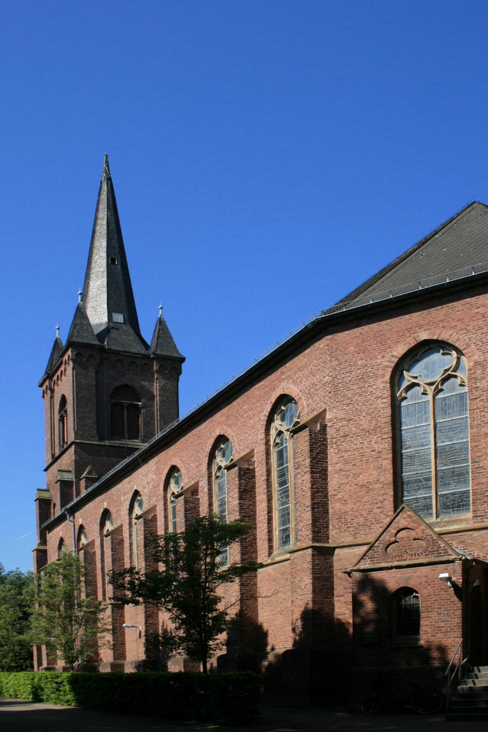 Cultural heritage monument No. 2 in Niederzier